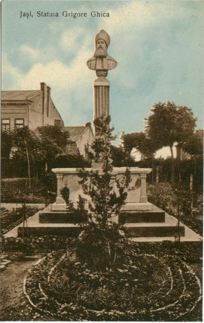 Bust of Grigore III Ghica of Moldavia, in Iași, Romania, by sculptor Karl Storck (1875)